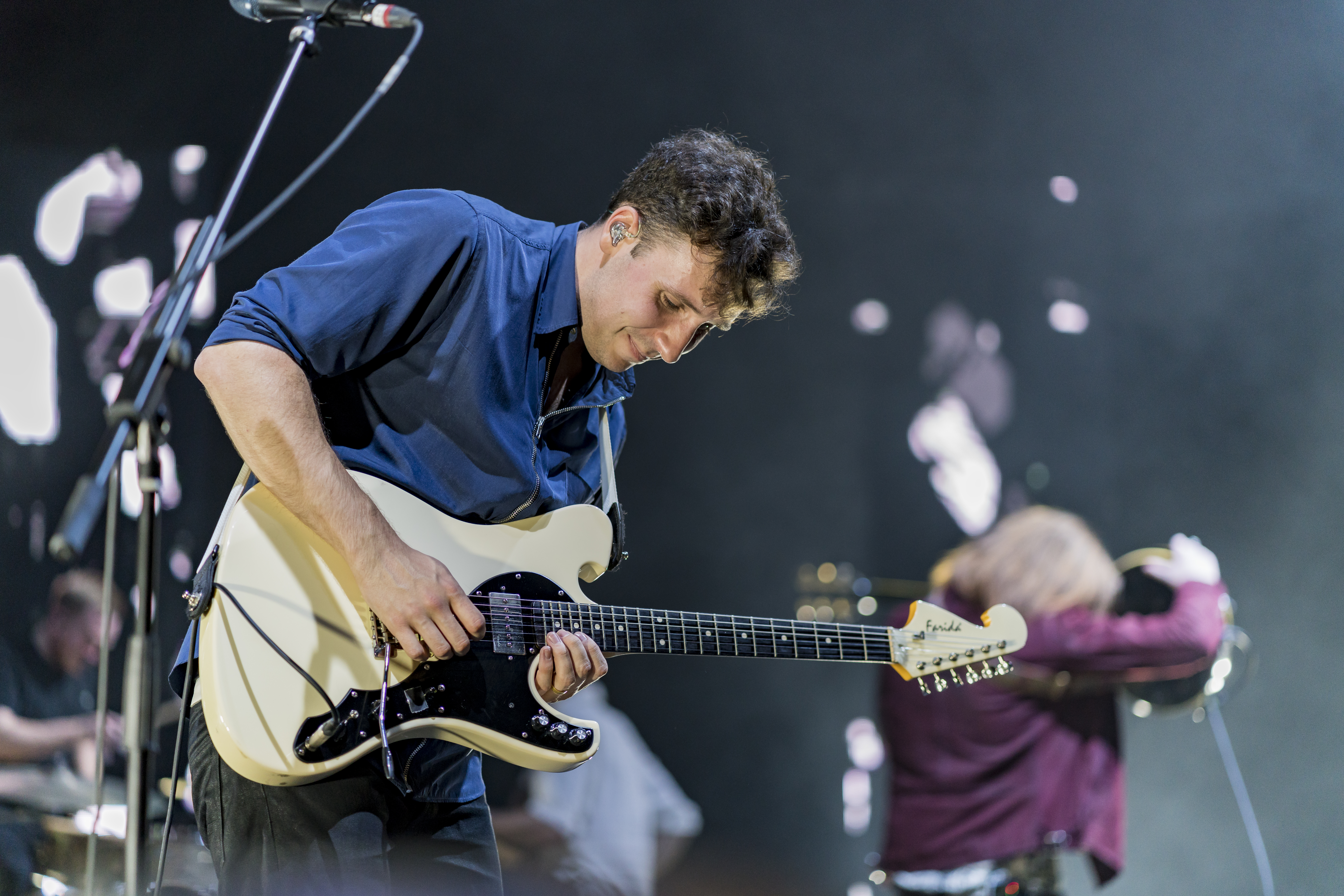 sam halliday two door cinema club singapore star vista 2017